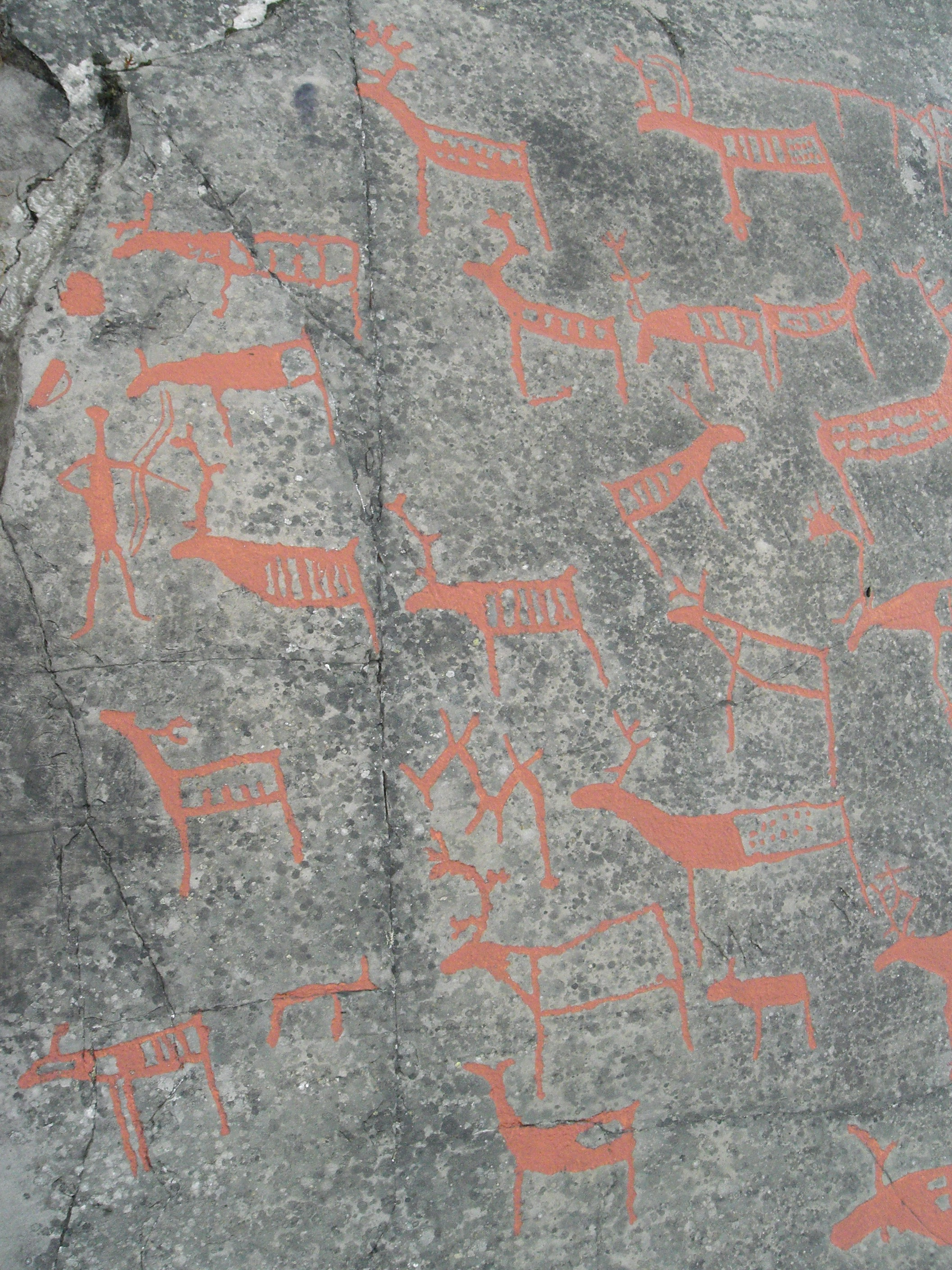 Alta, Norway - rock drawings (Runes) dated 4200 BC